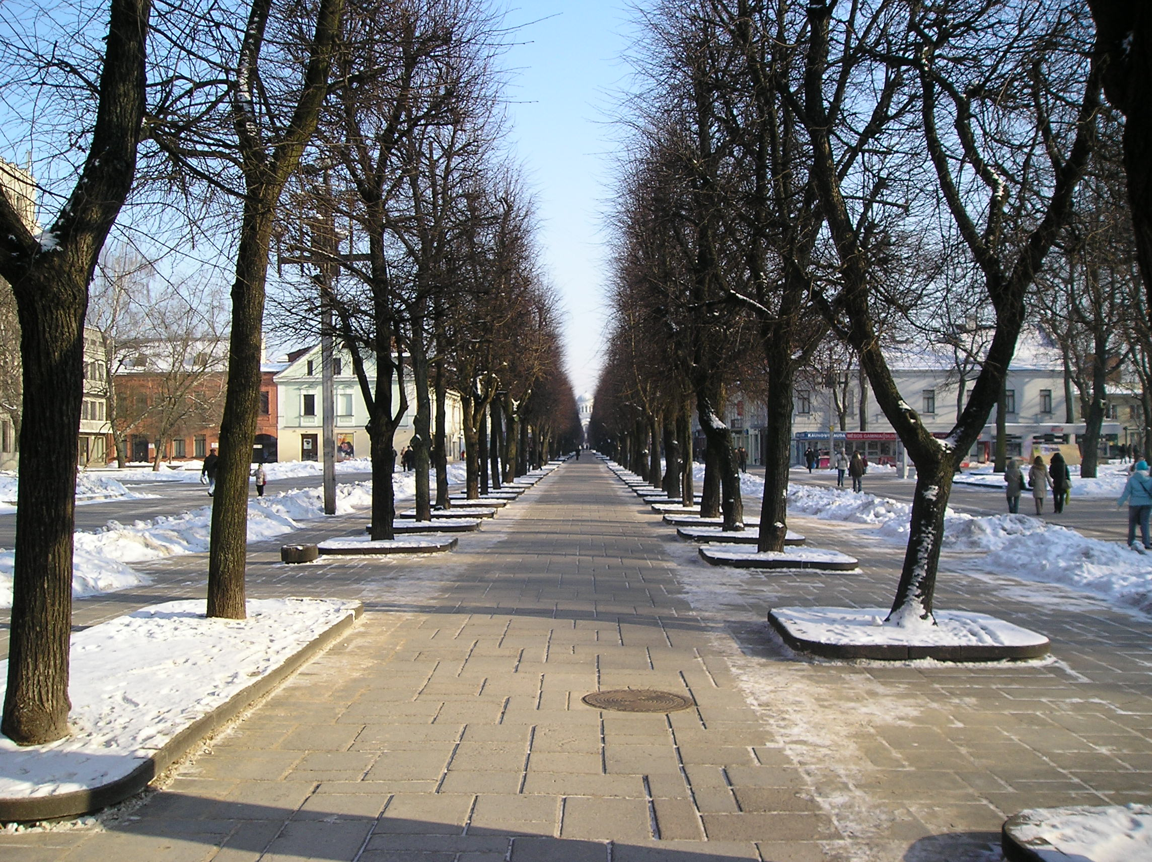 Stewart Ward.